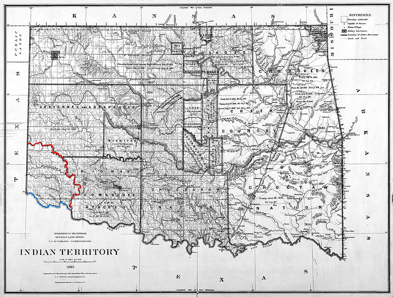 Map of Greer County Texas - circa 1885 federal government site, public domain (Greer County, Texas, outlined North Fork of the Red River in red, and South Fork in blue, before posting)